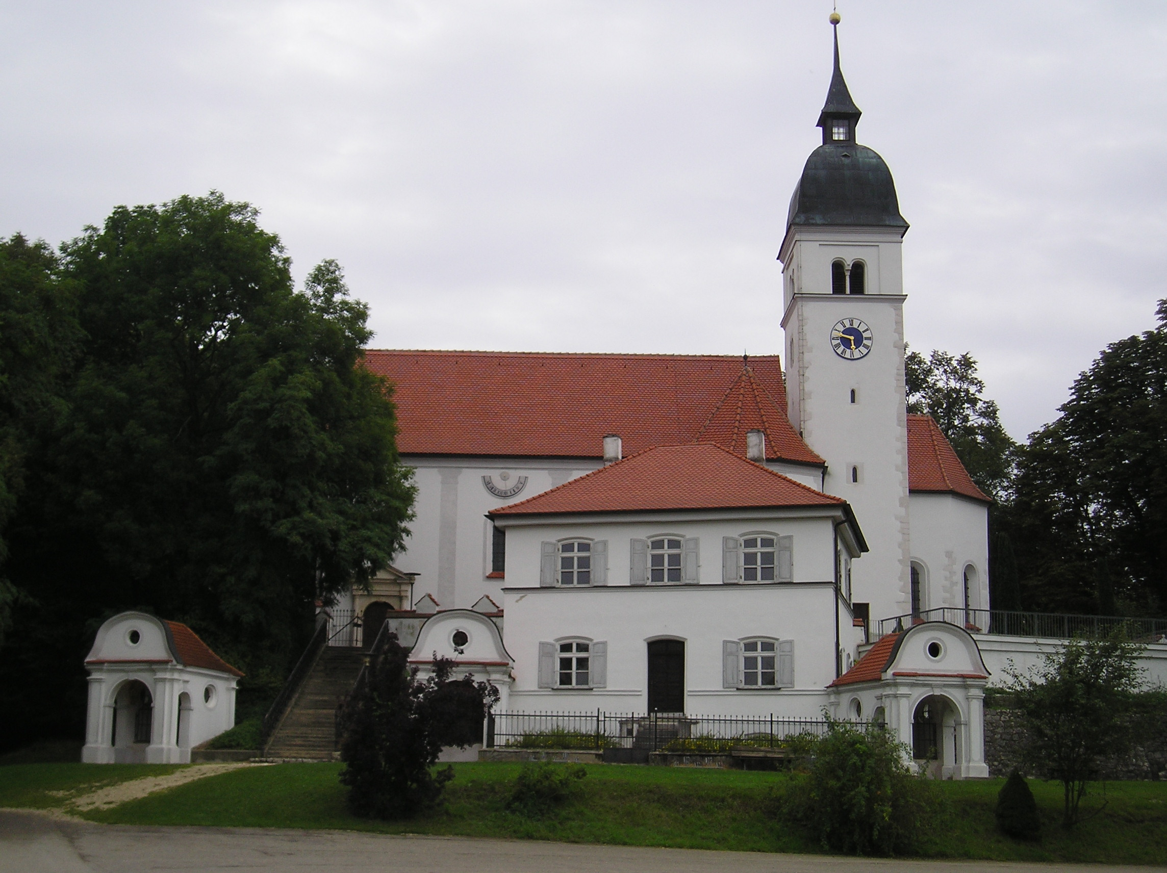 Saint Mary's church at Allersdorf near Abensberg in Lower Bavaria (Germany)